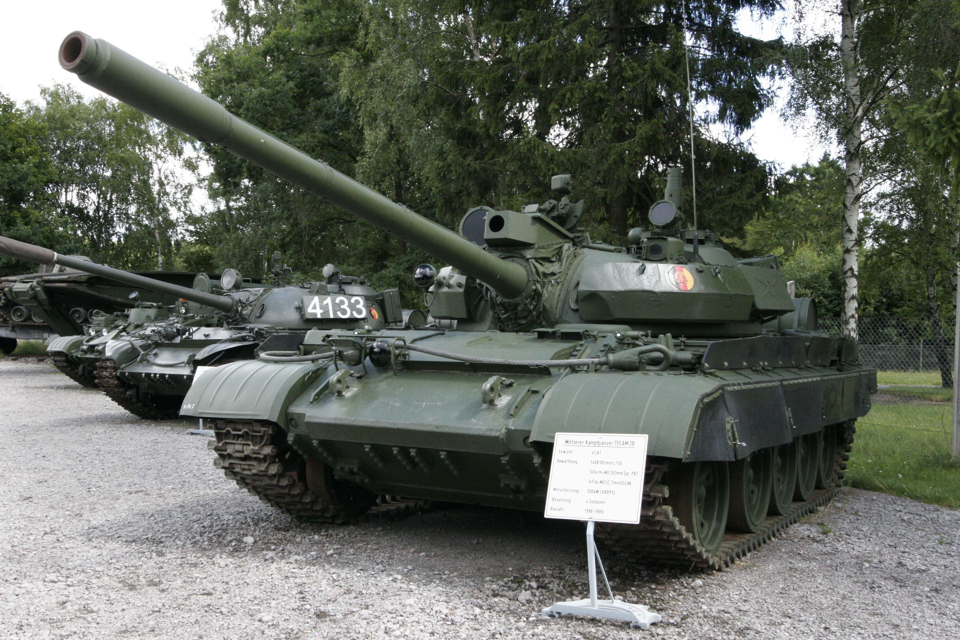 T-55 AM2B used by the National People's Army, German Democratic Republic on display at the Deutsches Panzermuseum Munster , Germany.